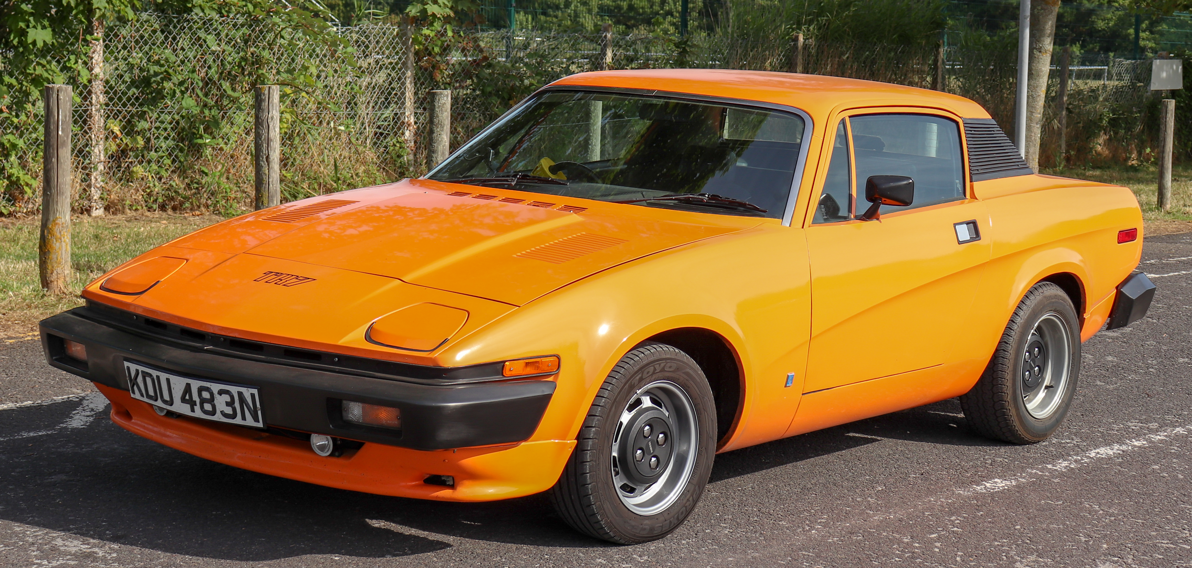 1975 Triumph TR7 3.5 Front Taken in Weymouth, Dorset